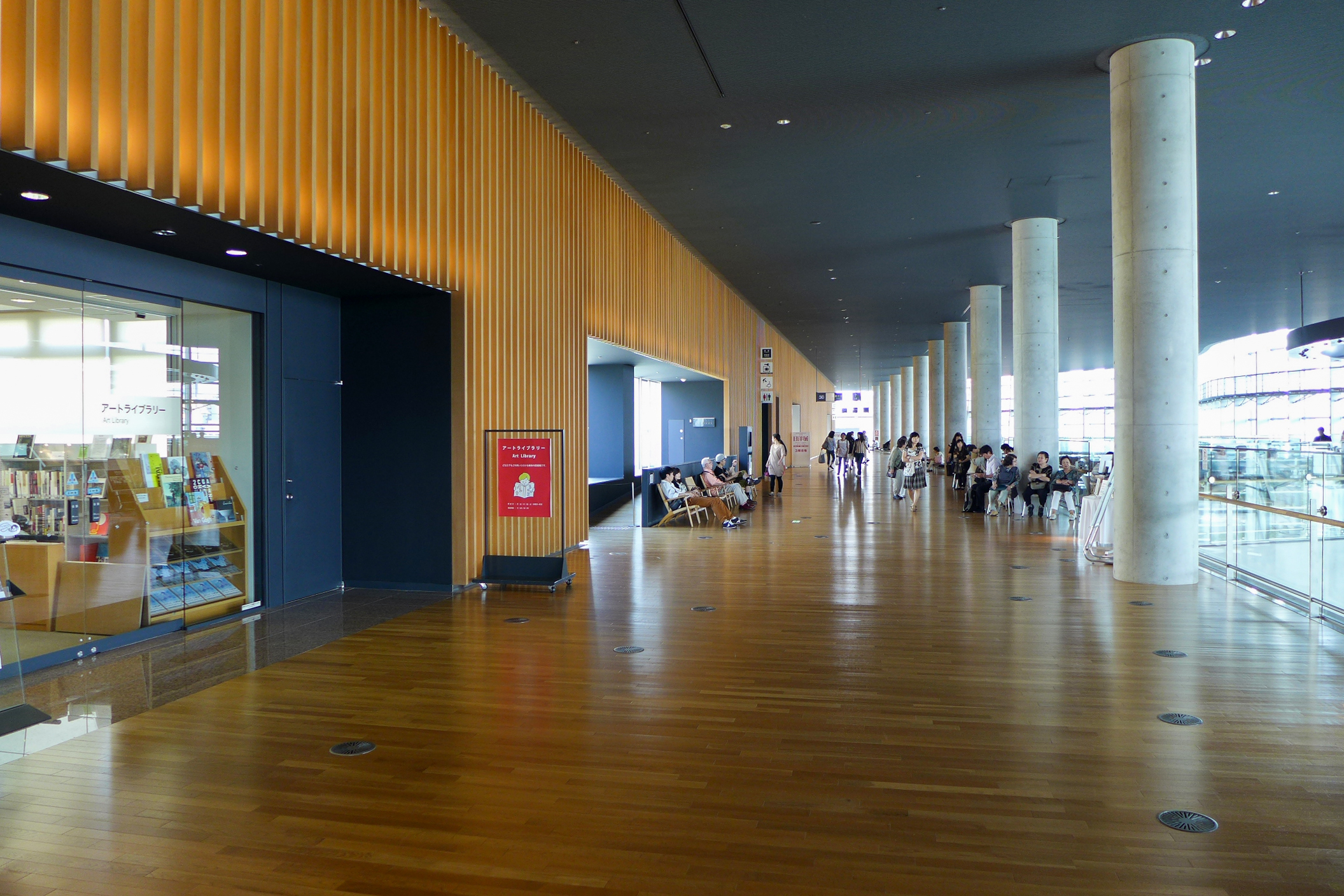 National Art Center, Tokyo